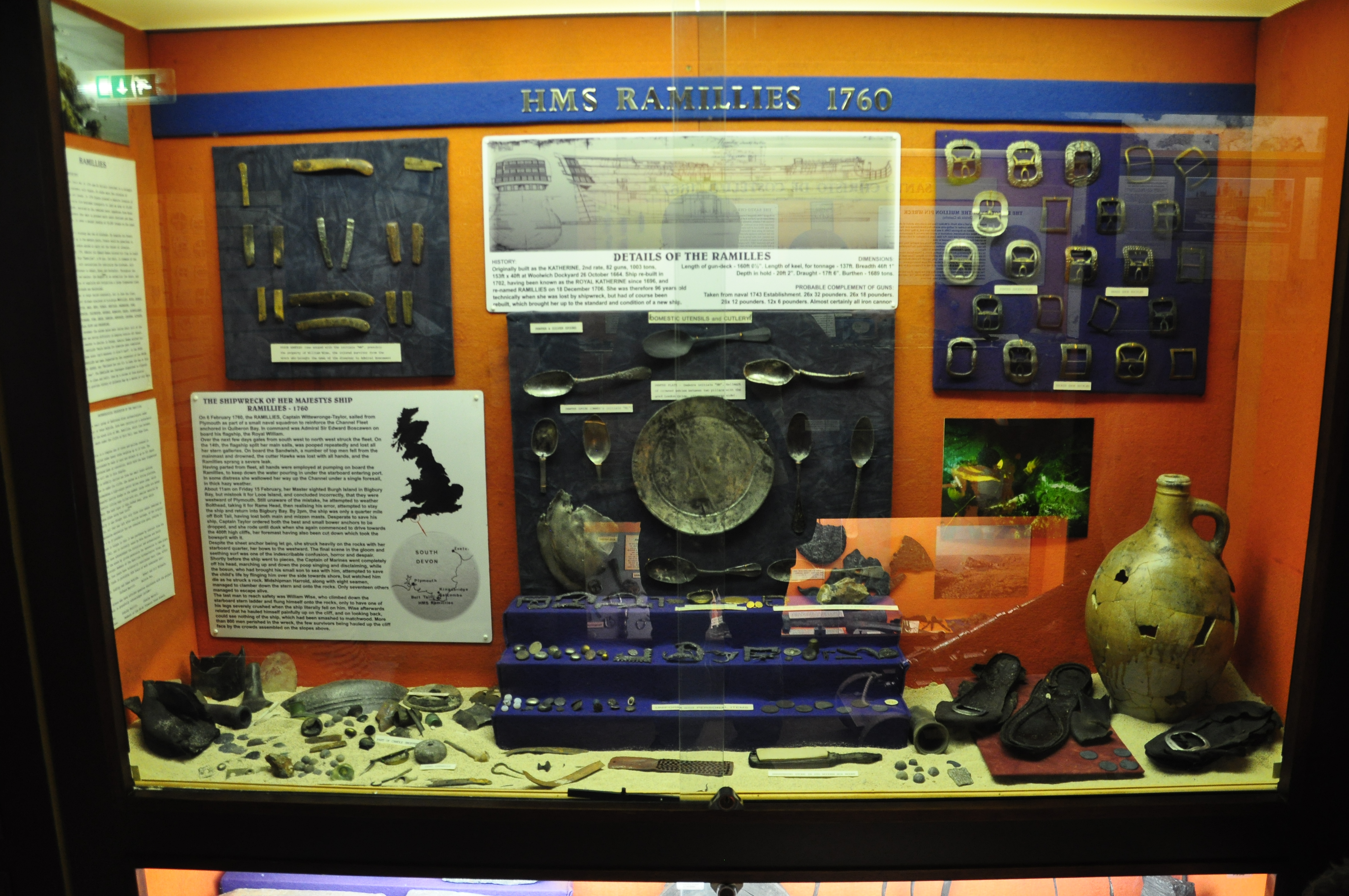 Charlestown Shipwreck and Heritage Centre